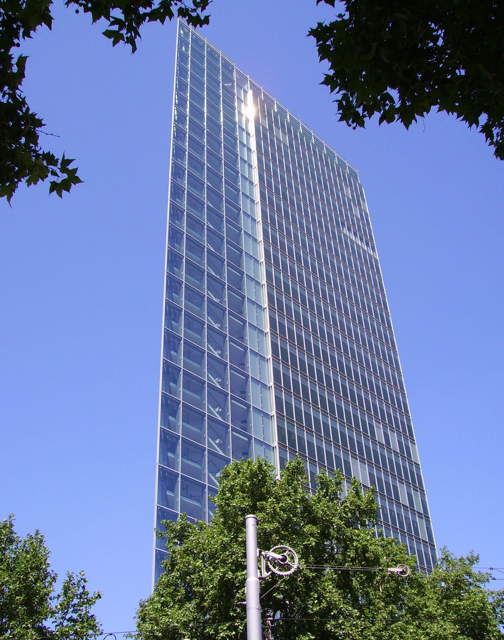 insurance building in Mannheim, Germany